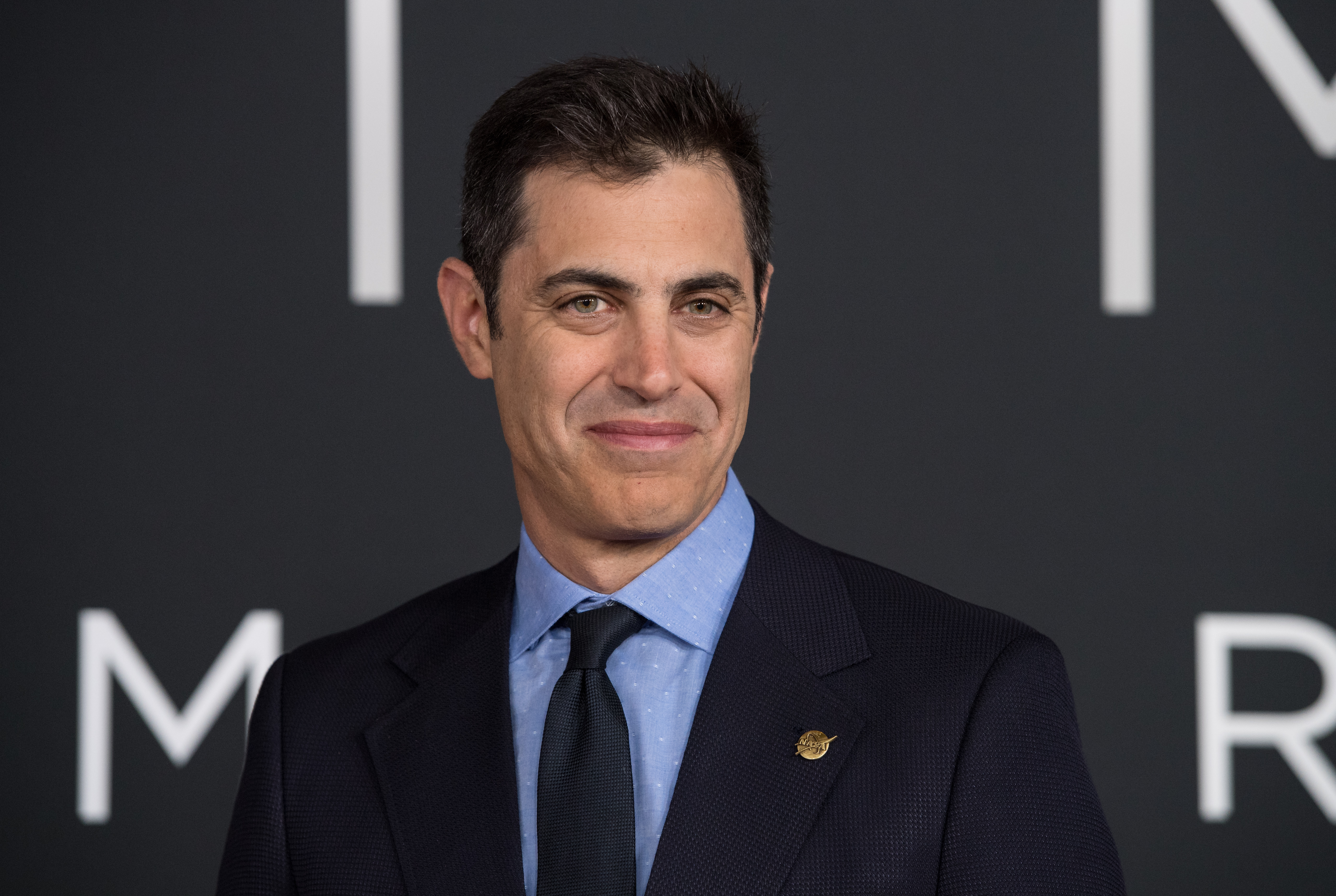 Executive Producer and writer Josh Singer arrives on the red carpet for the premiere of the film "First Man" at the Smithsonian National Air and Space Museum Thursday, Oct. 4, 2018 in Washington. The film is based on the book by Jim Hansen, and chronicles the life of NASA astronaut Neil Armstrong from test pilot to his historic Moon landing.